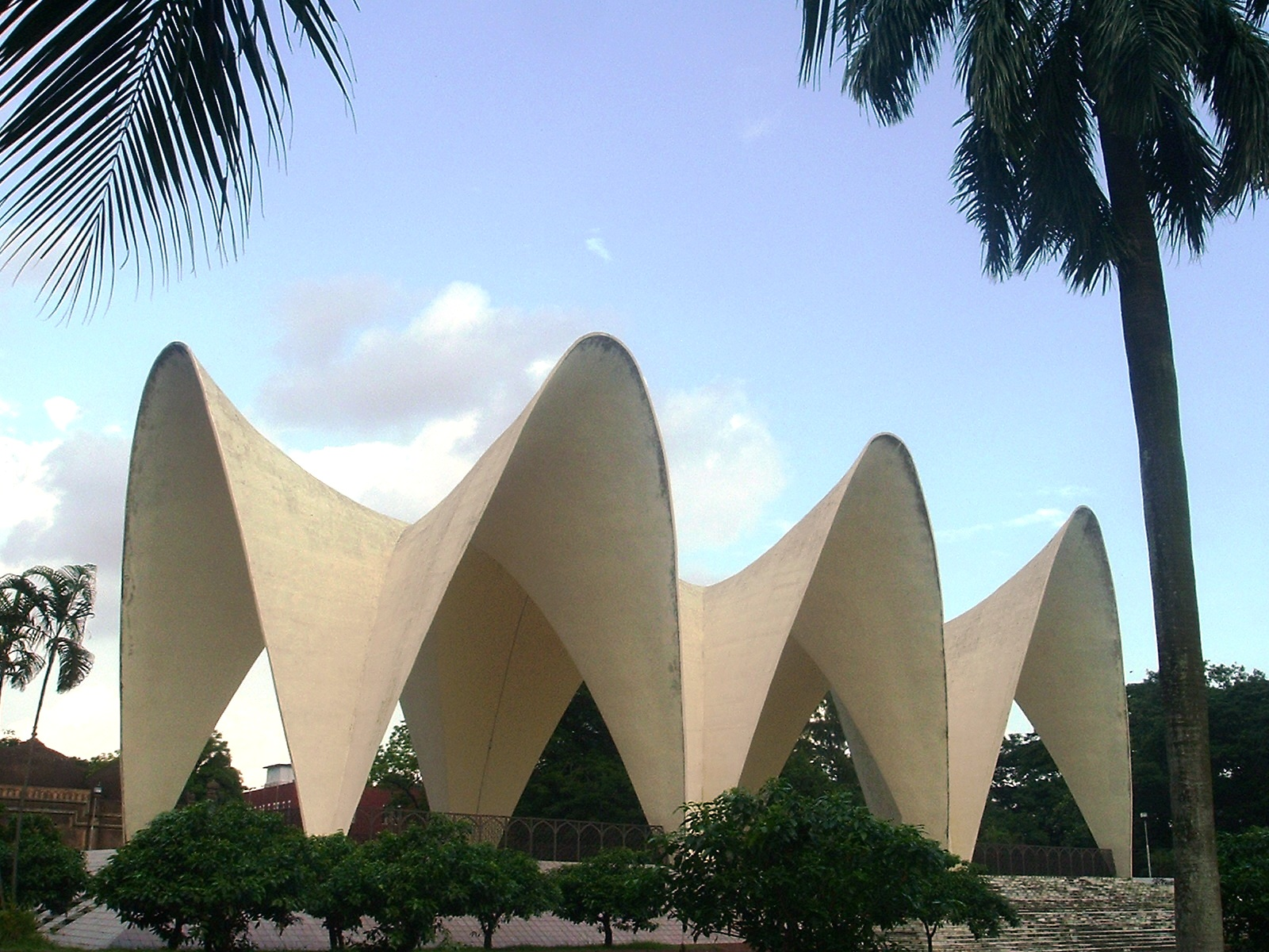 Tomb Of Three Leader, at Dhaka University Campus. Architect: S.A.K Masud Ahmed (Former chief architect Bangladesh Govt.)